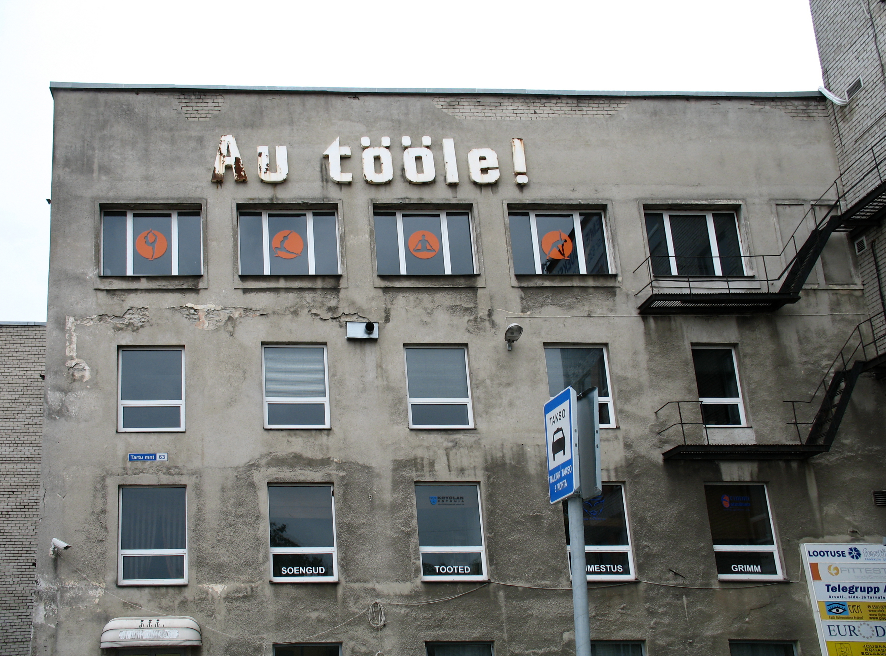 "Marat" building, Tallinn, Tartu mnt 63